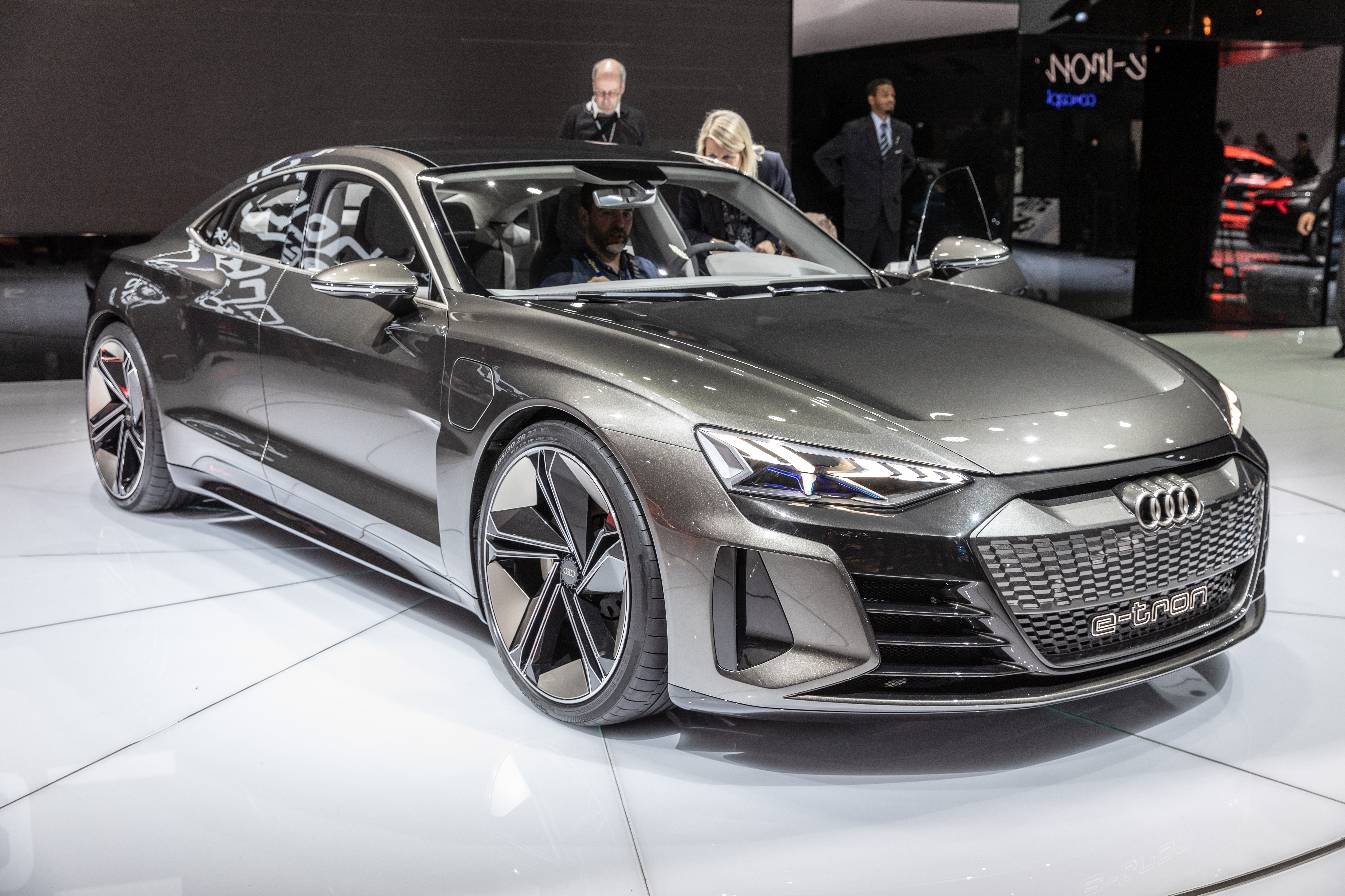 Audi e-tron GT concept at Geneva International Motor Show 2019, Le Grand-Saconnex